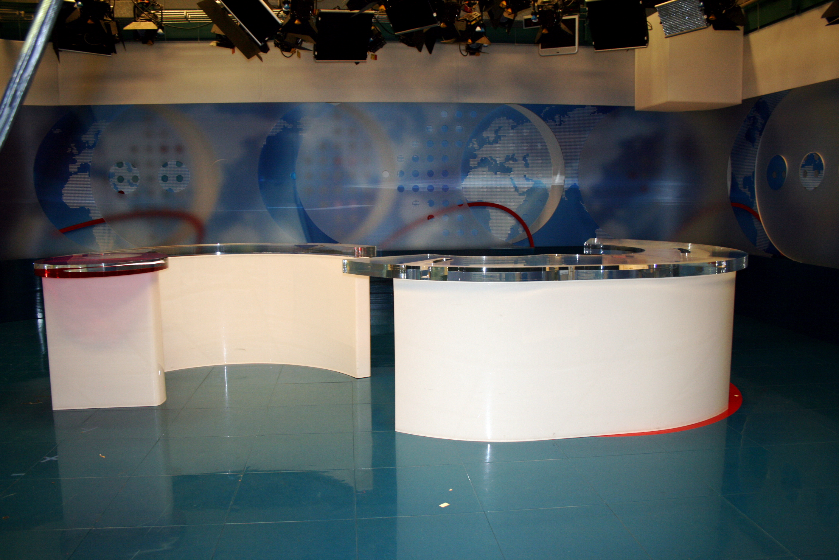 The Dagsrevyen og Kveldsnytt studio at NRK Marienlyst i Oslo.